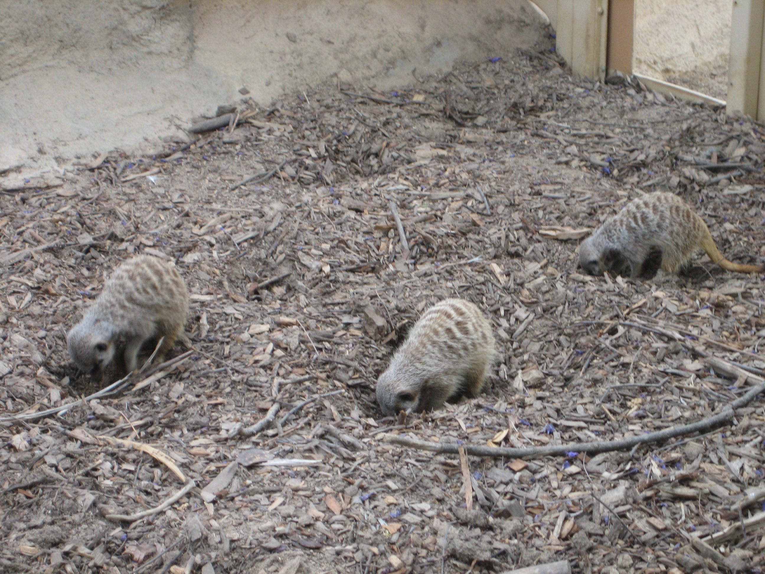 Meerkats foraging.